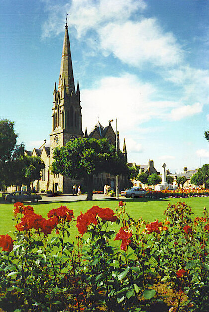 Ballater Kirk, in the square at Ballater.